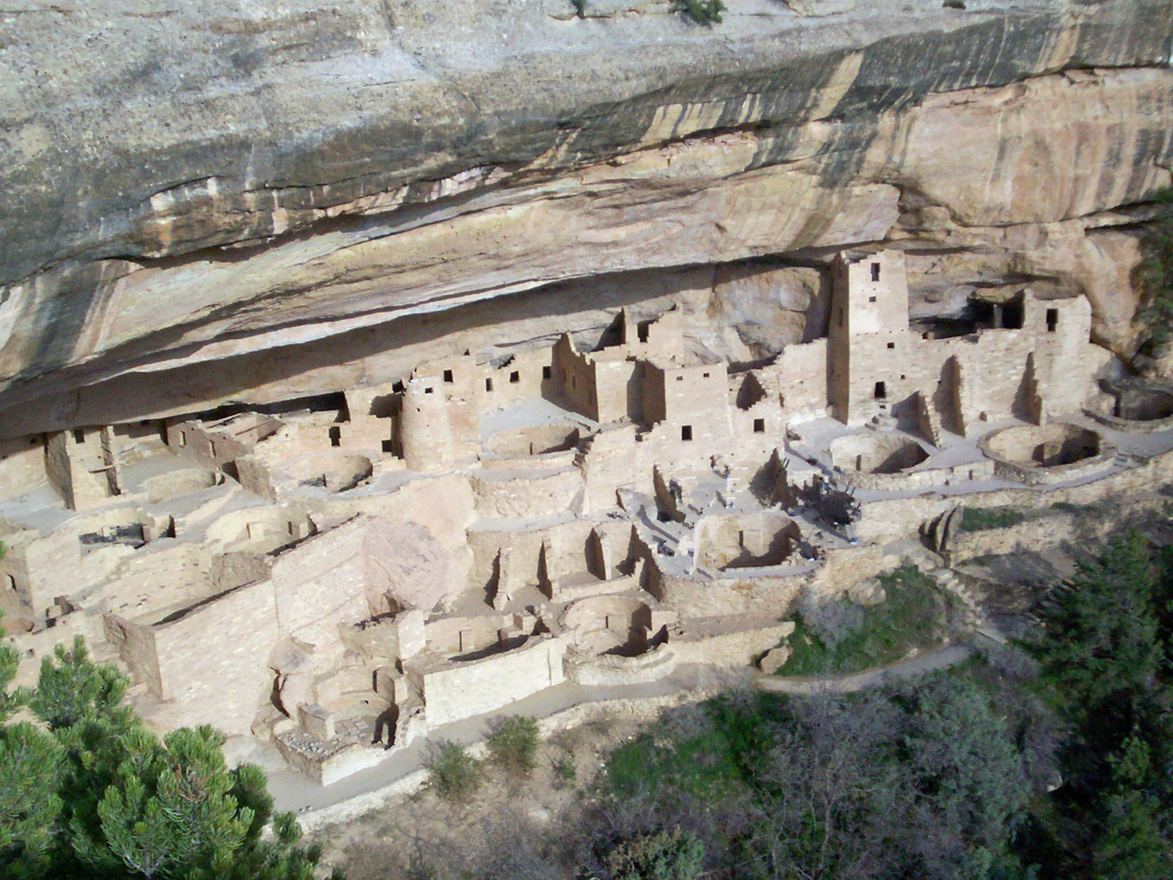 Cliff Palace at Mesa Verde National Park, CO.